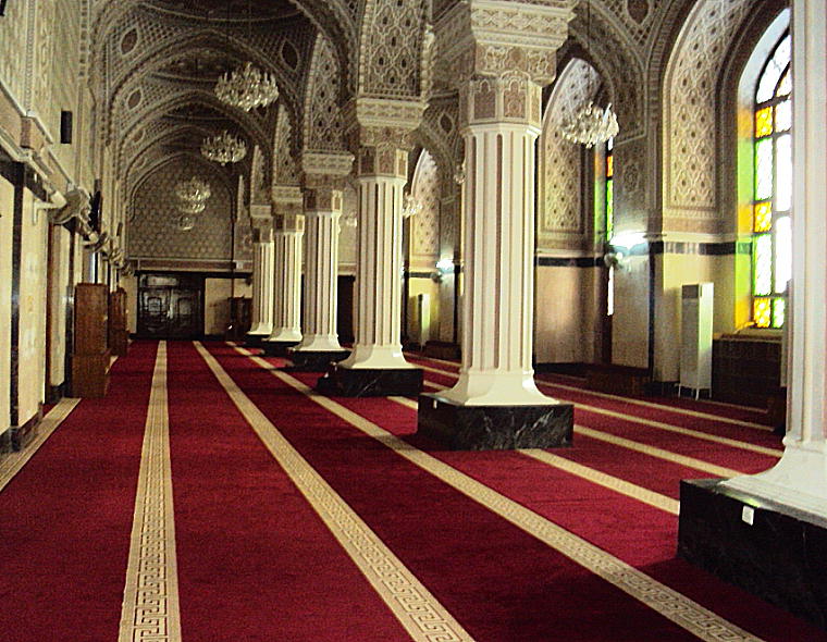 A view of the main hall of the Abu Hanifa Mosque in Adhamiyah.